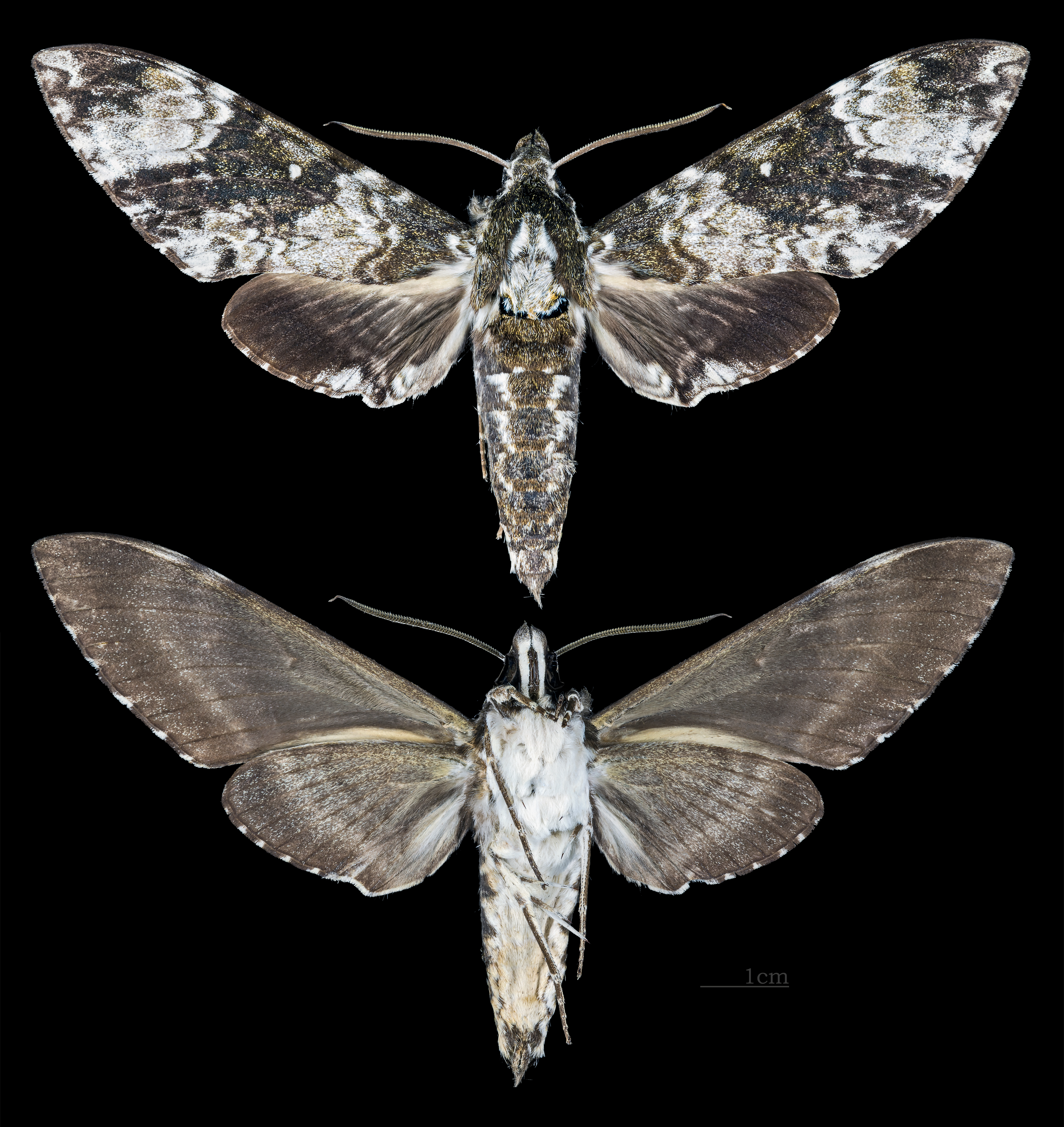 Poliana leucomelas - Two views of same specimen Collection of the Mathematician Laurent Schwartz